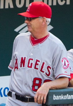 The Los Angeles Angels of Anaheim in the dugout during a 2012 game at Camden Yards in Baltimore